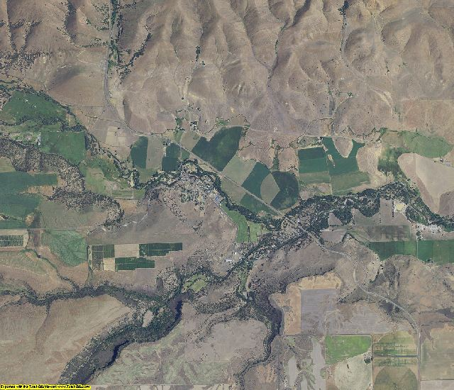 An aerial view of Wasco County, Oregon.